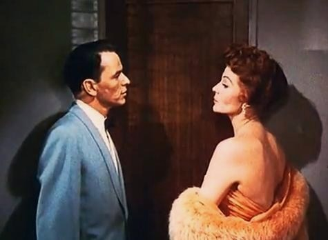 Frank Sinatra & Rita Hayworth in Pal Joey - trailer (cropped screenshot)